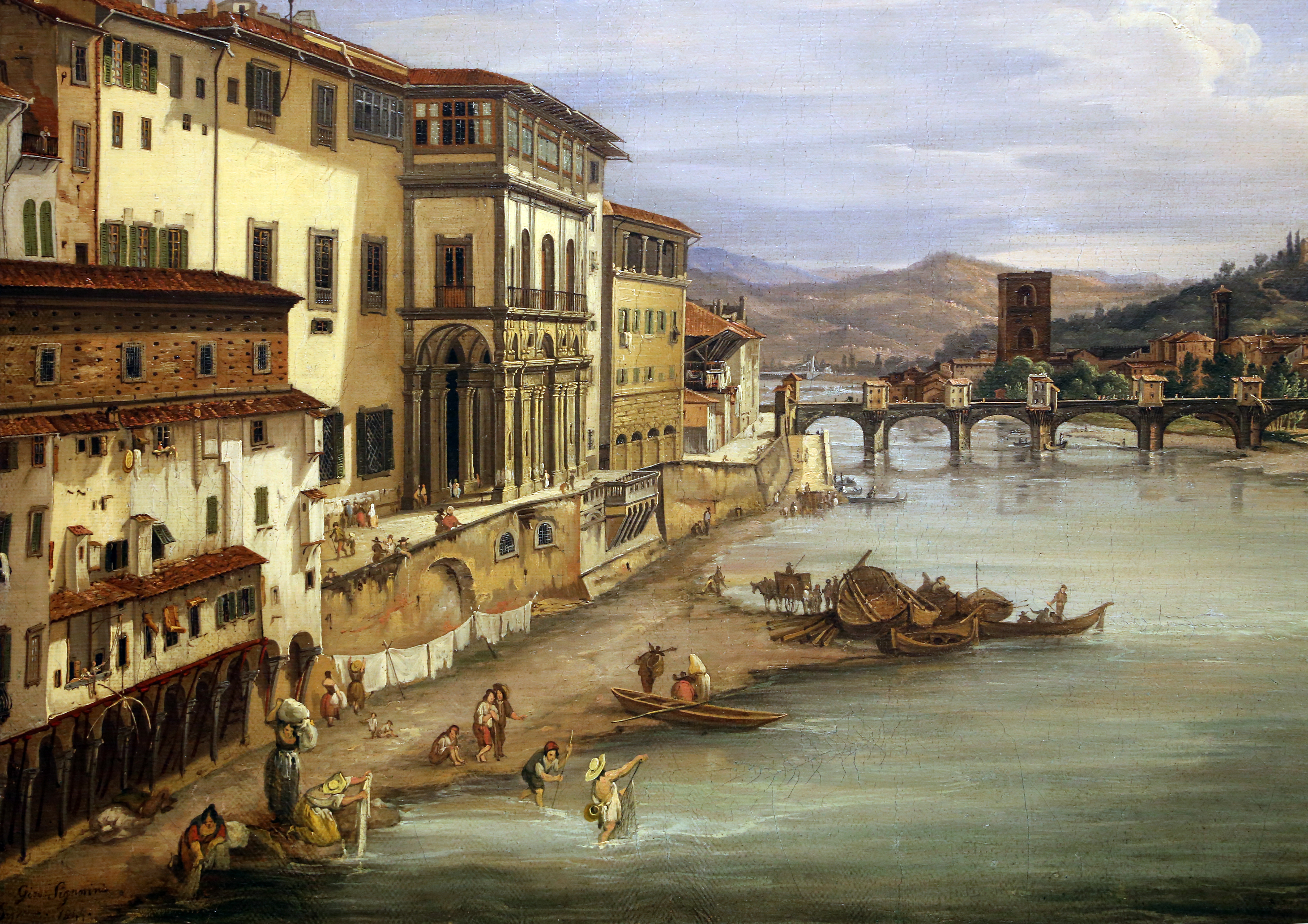 Cassa di Risparmio di Firenze art collection - Paintings